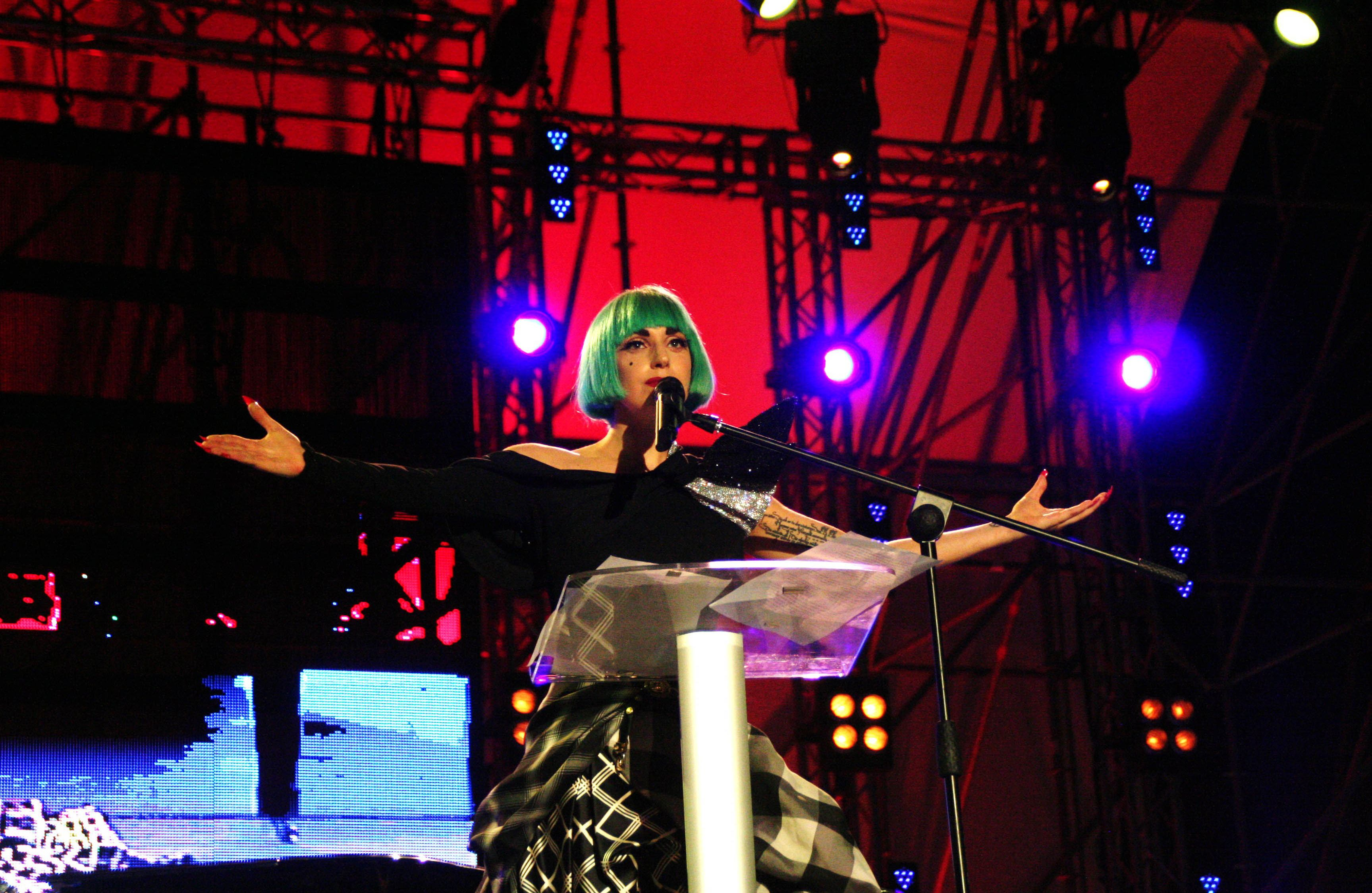 Lady Gaga giving a speech at EuroPride 2011, in Rome, italy.